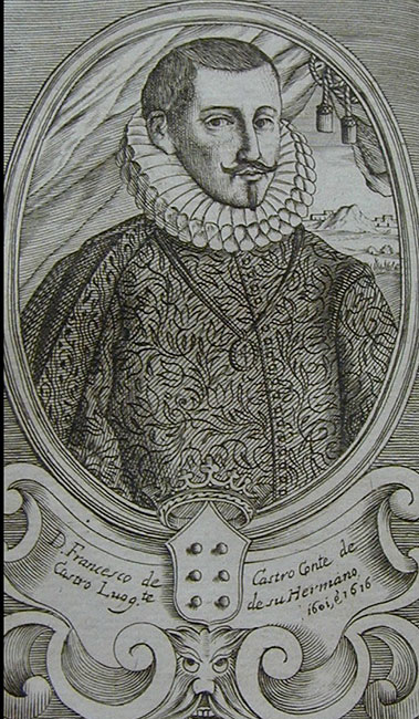 Francisco Ruiz de Castro y Portugal, viceroy of Naples